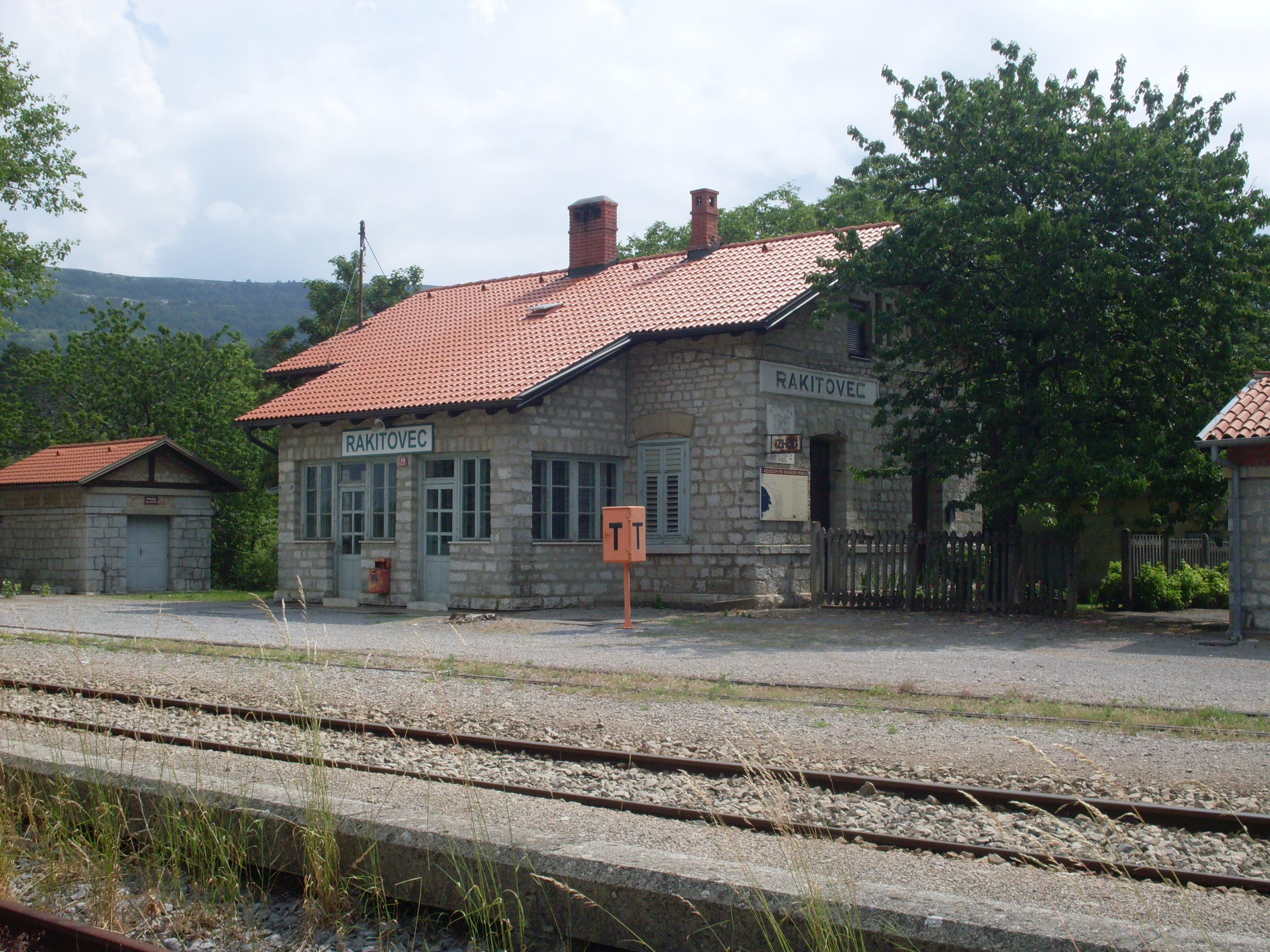 Train station in Rakitovec, SloveniaSlovenščina: Železniška postaja Rakitovec